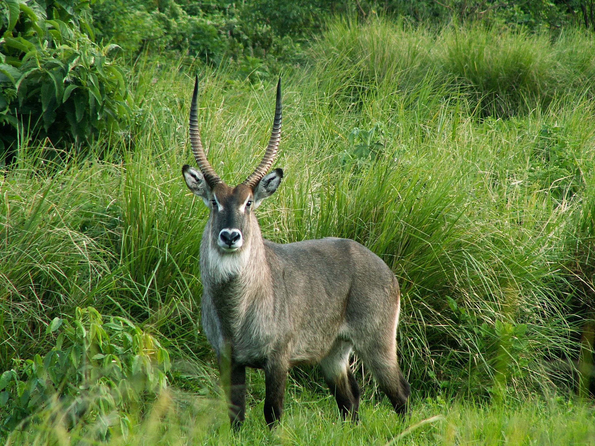 An adult waterbuck.